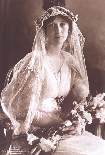 Princess Margaretha of Sweden